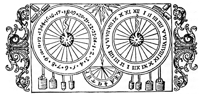 Woodcut from the 16th century History of the Nordic peoples, by Olaus Magnus, supposedly depicting the astronomical clock in Uppsala Cathedral, which was later destroyed in a fire.